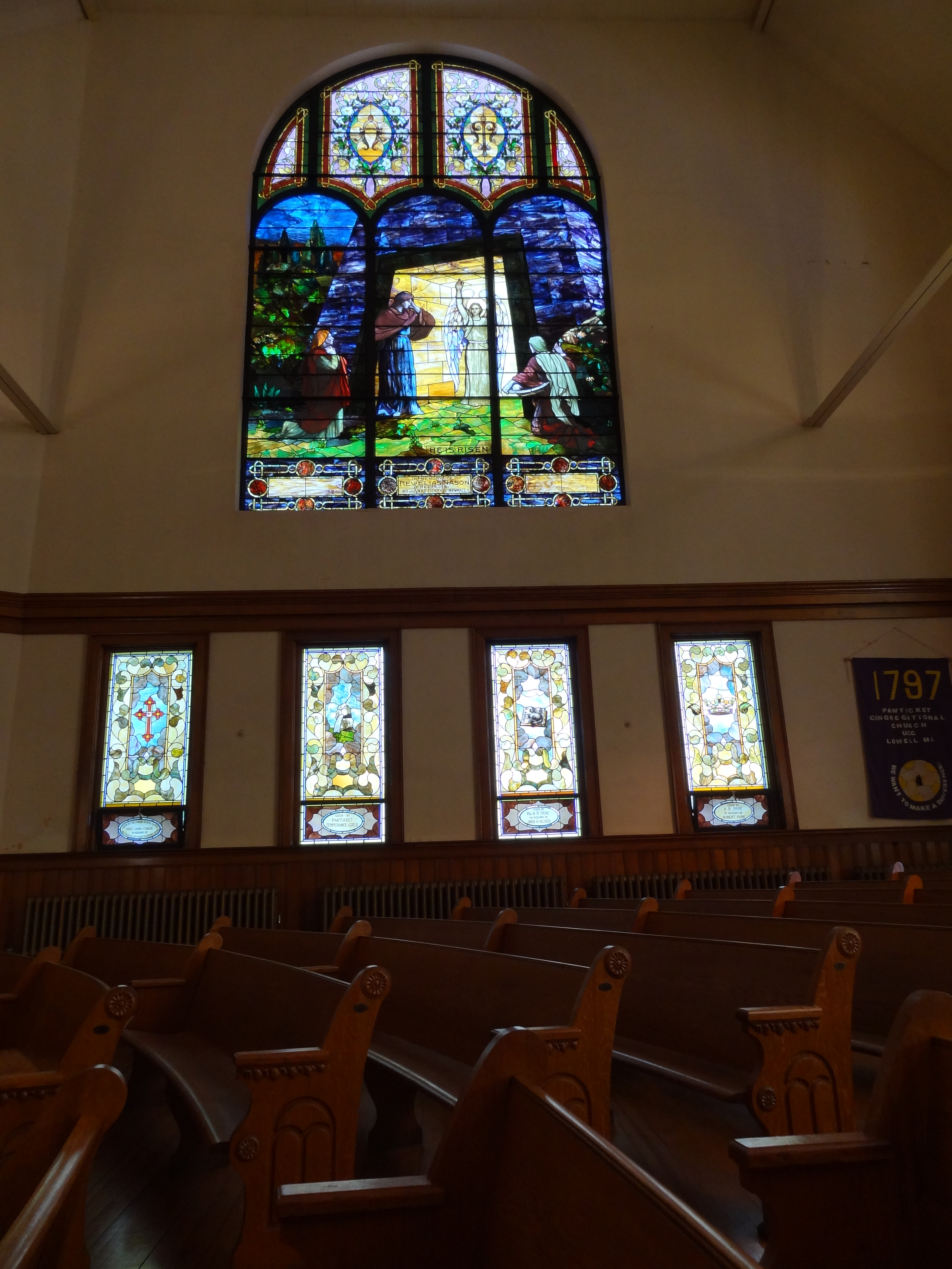 A stained glass window depicting the scene from Matthew 28:5-6 in which Mary Magdelene and two other women are told "He Is Risen" by an angel at Jesus's empty tomb. Located on the southeastern wall of the sanctuary of Pawtucket Congregational Church at 15 Mammoth Road, Lowell, Massachusetts. From the source linked below: "The Biblical images depicted in the four smaller windows beneath are a red cross with jeweled yellow points; water from a flowing rock; an open Bible with a lamb resting on it; and a golden crown with multi-colored jewels." More information: 2011 National Registry Nomination for Pawtucket Congregational Church